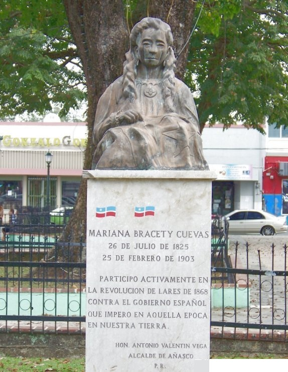 Mariana Bracetti (1825-1903) fue una patriota y líder del movimiento de la independencia de Puerto Rico en la década de 1860. A ella se le atribuye el hacer la bandera que estaba destinada a ser utilizada como la bandera nacional de Puerto Rico en el fallido intento de derrocar al gobierno español en la isla para establecer a la isla como una república soberana, más tarde conocido como el Grito de Lares.